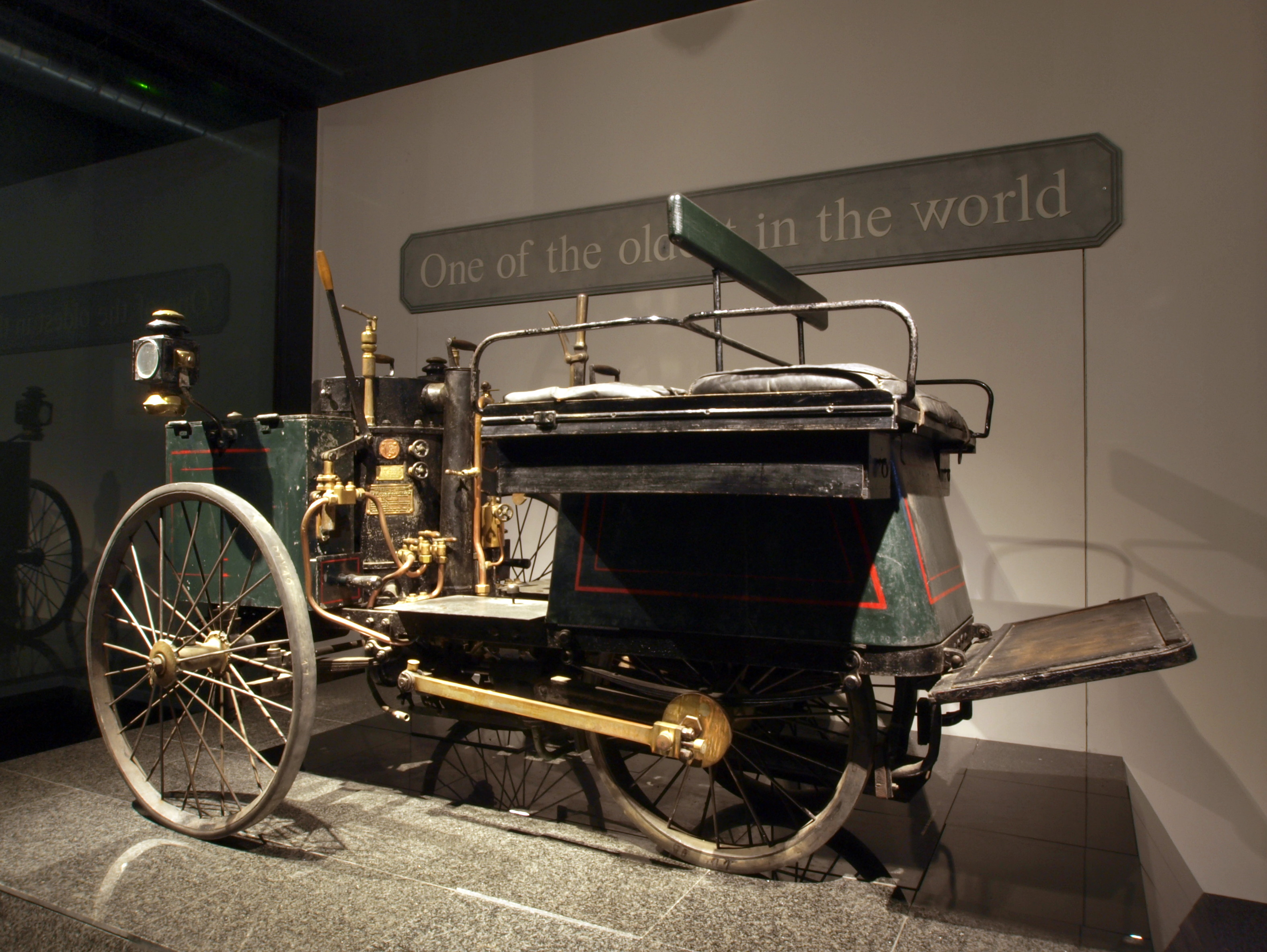 1887 De Dion-Bouton et Trépardoux steam quadricycle, one of the oldest cars in the world. Photographed at the Louwman museum, The Netherlands.